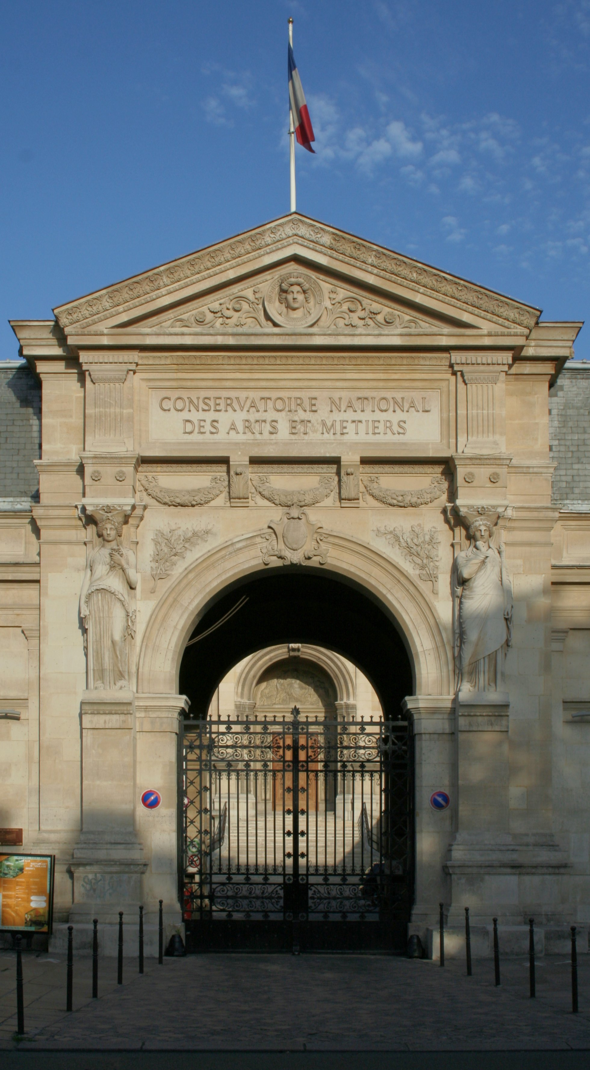 Entrance of the Conservatoire National des Arts et Métiers in Paris.Caryatids are signed "L.V.E. ROBERT/1851"; they are allegories of Art (left) and Science (right).Perspective corrected with GIMP.